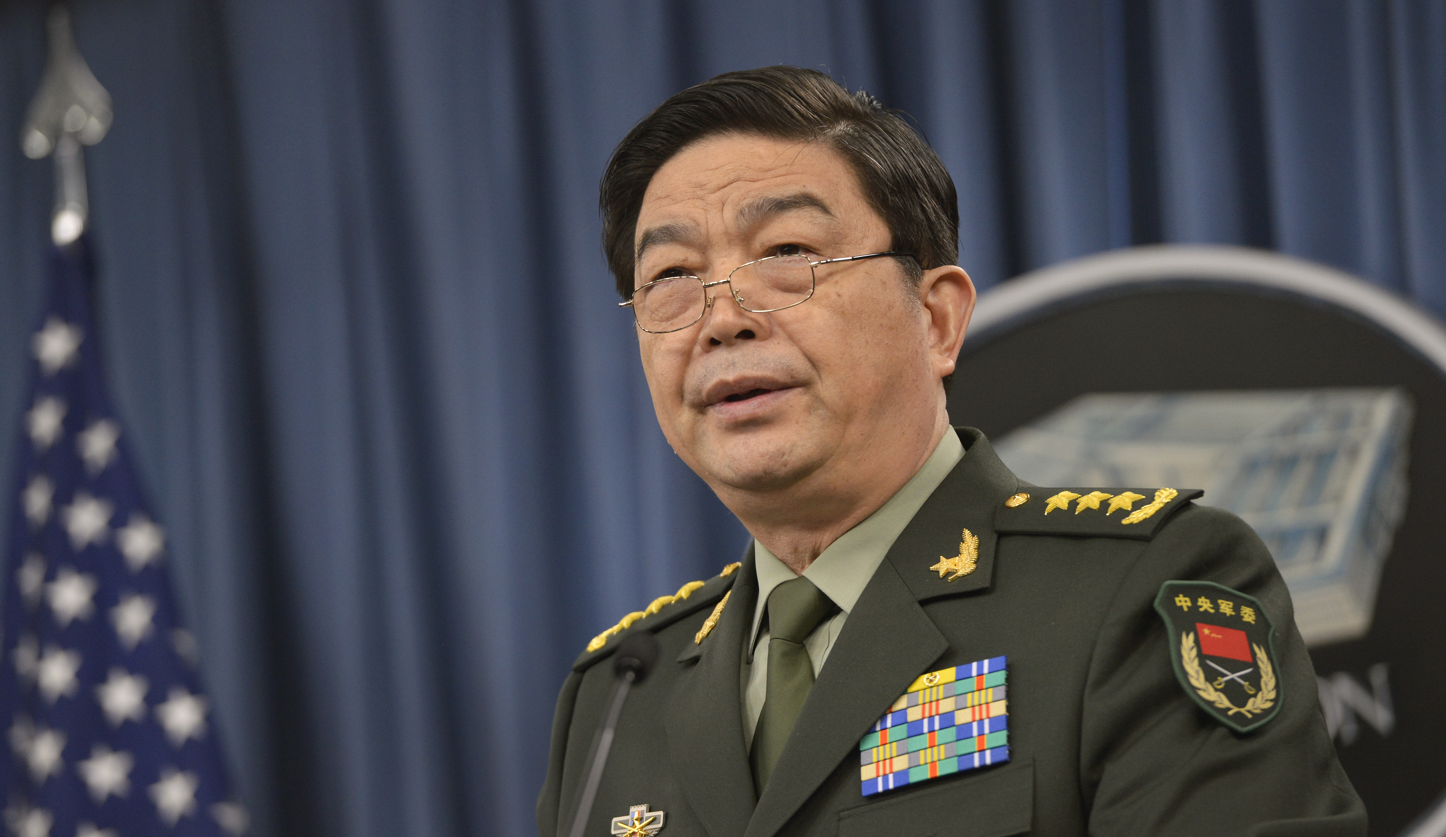 China's Minister of National Defense Gen. Chang Wanquan answers reporters' questions as he and Secretary of Defense Chuck Hagel hold a joint press conference in the Pentagon Press Briefing Room August 19, 2013. The two are engaging in a day-long series of meetings to discuss a broad range of issues including the rebalancing of U.S. forces to the Asia-Pacific and military to military relations. DoD Photo by Glenn Fawcett (Released)